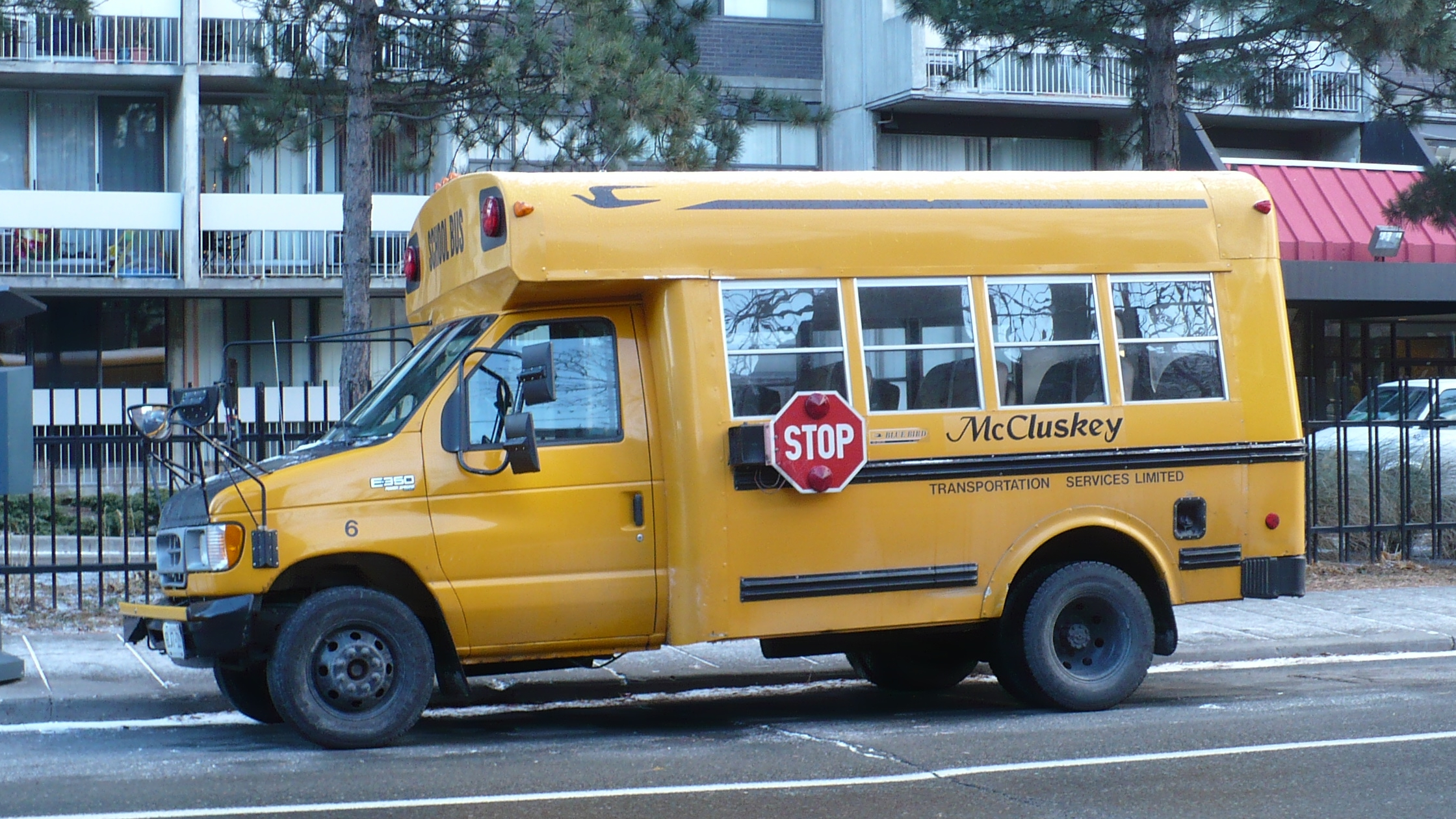 McCluskey Transportation Services, Toronto